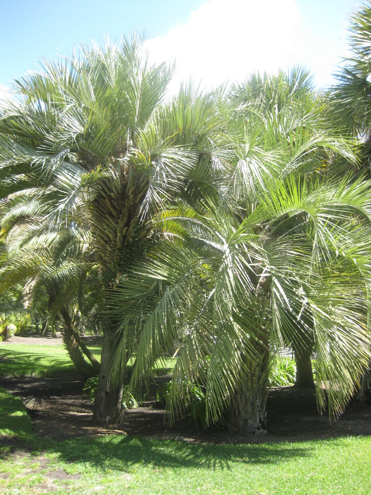 Photographed at Huntington Gardens (Los Angeles) in March